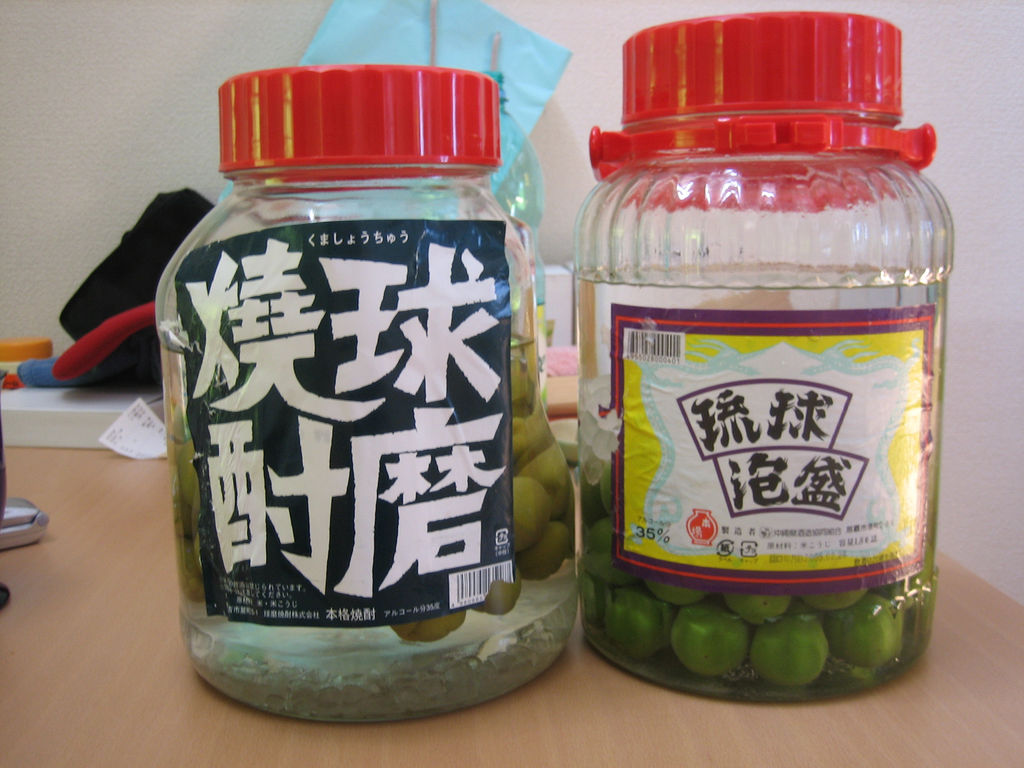 FIGHT!Something tells me they are going to taste exactly the same, even though the alcohols smell completely different right now.